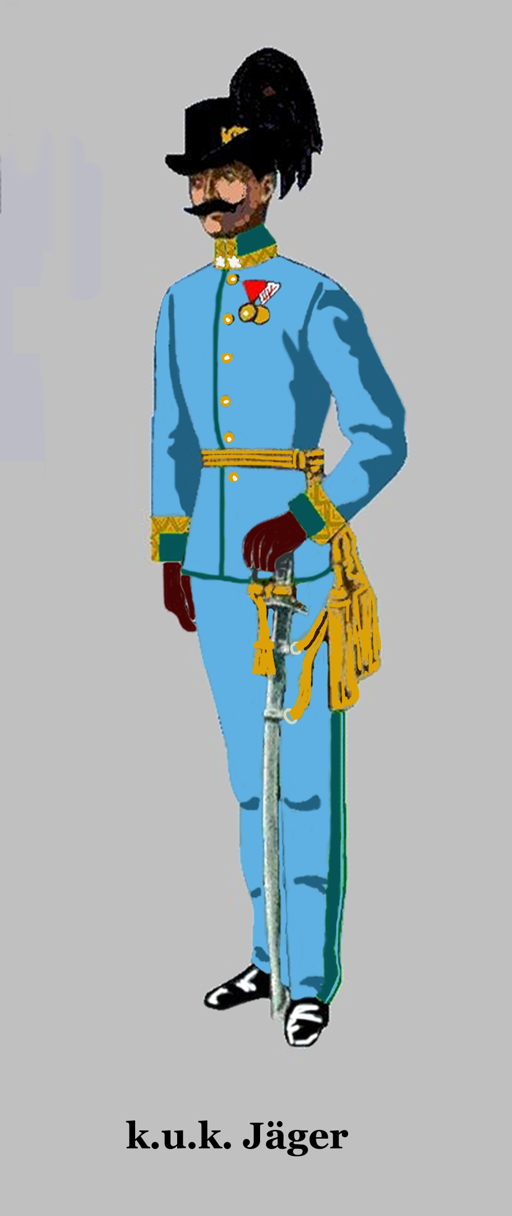 Austria-Hungarian Rifles - Major in paradedress